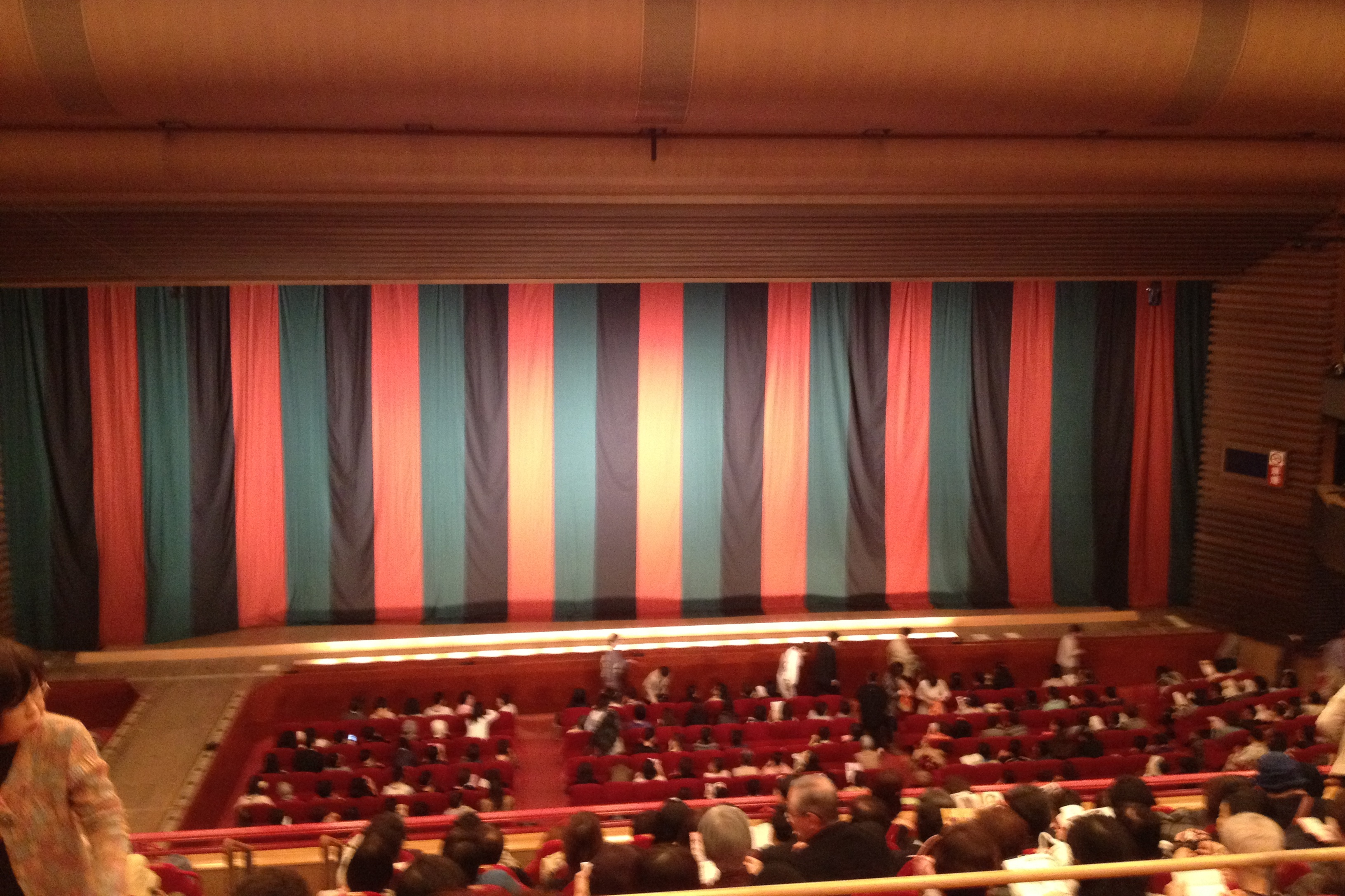 Traditional kabuki curtain at the Misono-za theatre in Nagoya. This was the last kabuki performance week before renovation work.